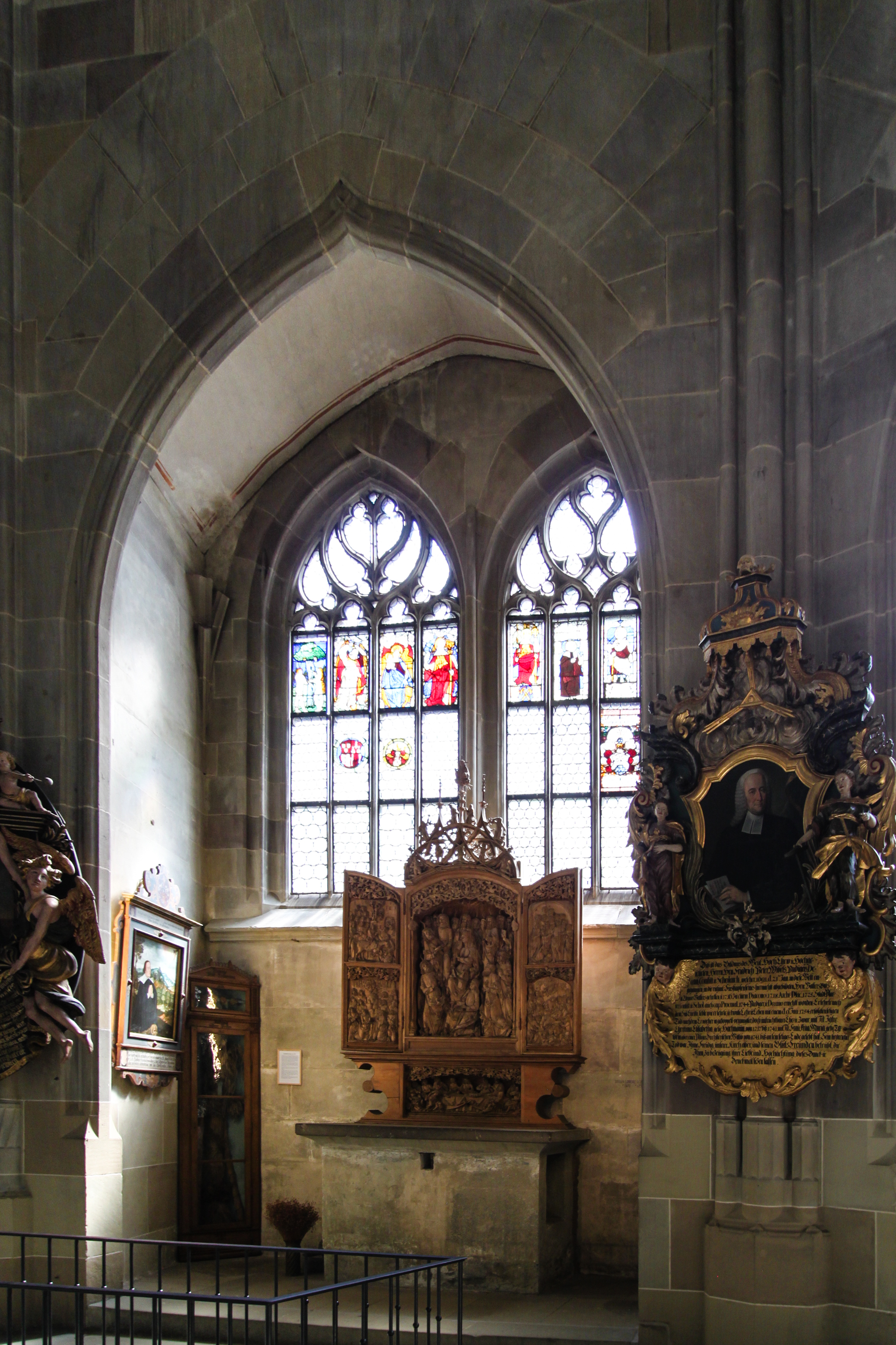 Holy Spirit Altar in St. Michael in Schwaebisch Hall Germany